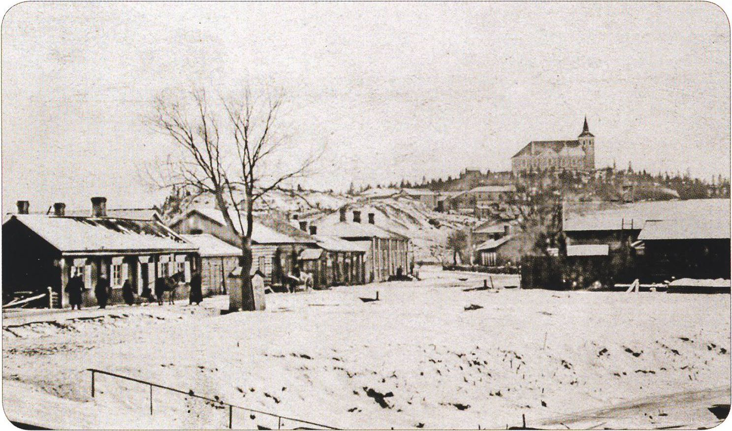 Lukkarinmäki and Kirkonmäki about 1870